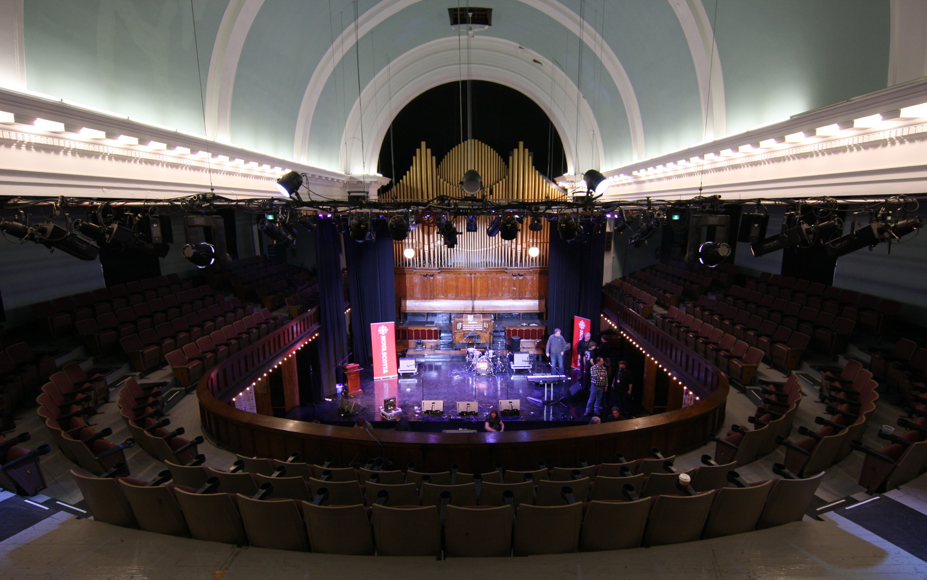 Highland Arts Theatre Balcony, showing the Acoustic Barrel Vaulted Ceiling above the Lighting Grid. The Highland Arts Theatre is a historic building, first constructed as a Presbyterian Church, now operating an arts and culture centre in Sydney, Cape Breton Regional Municipality, Nova Scotia, Canada. It was initially constructed as St. Andrew's Presbyterian Church. In 2014 St. Andrew's reopened as the Highland Arts Theatre, a live play and film theatre and concert venue located in Sydney's waterfront district.